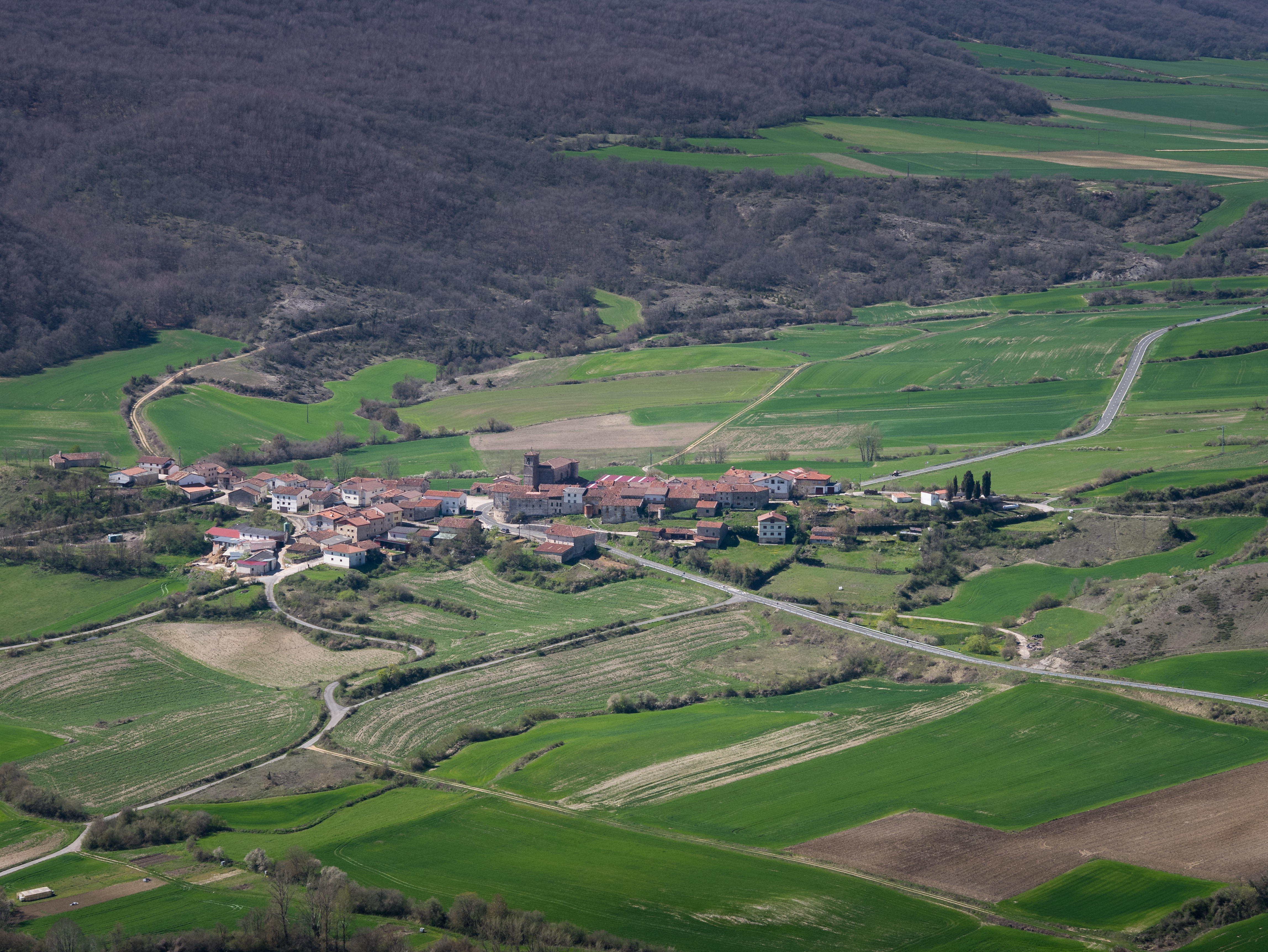 Kontrasta in the Arana Valley, as seen from the summit of Murube. Álava, Basque Country, Spain